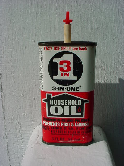 3-in-1 lubricating oil can